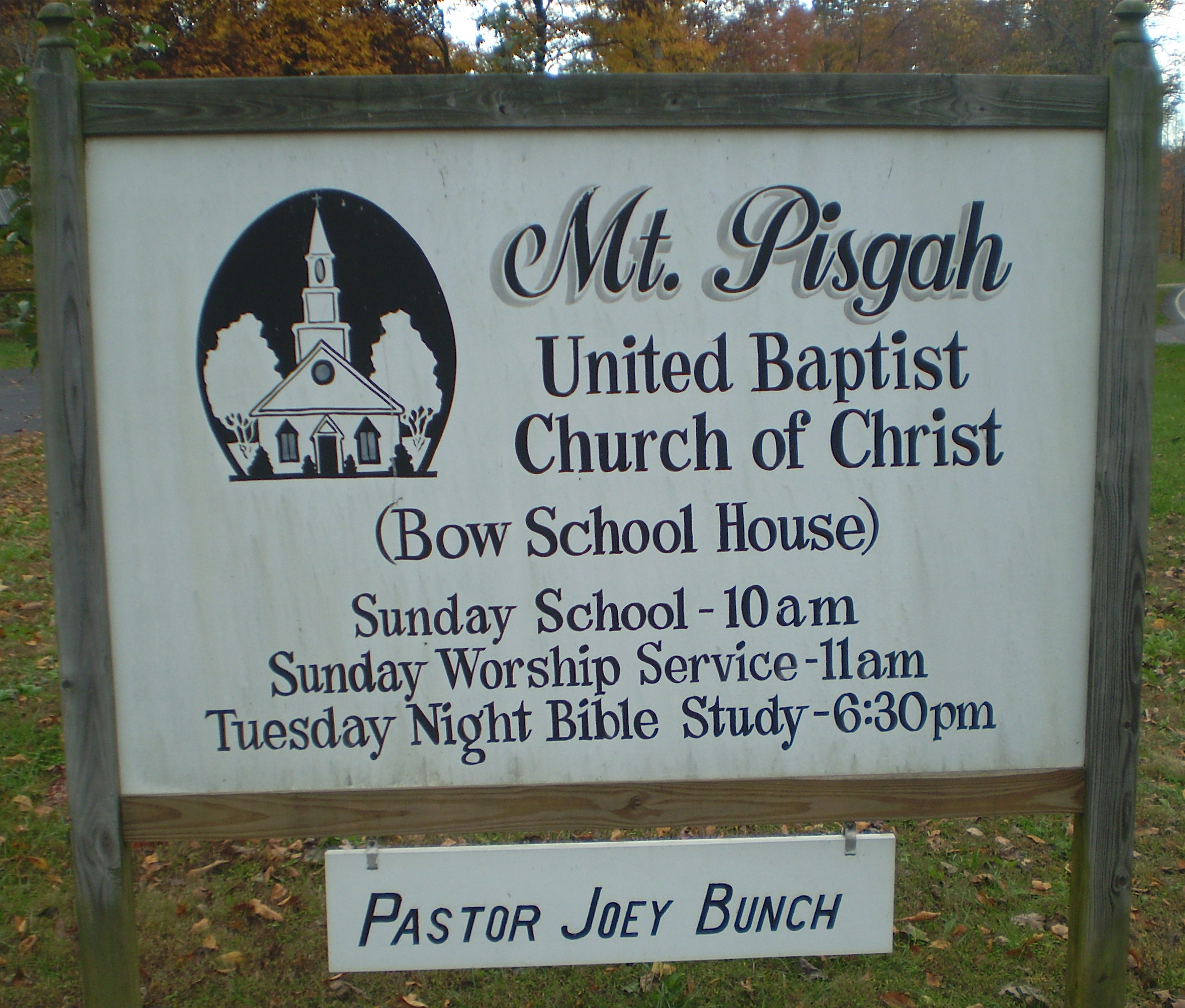 This is an image of the sign in front of the Mt. Pisgah United Baptist Church of Christ in Bow School House, Kentucky. I took it in October of 2009.